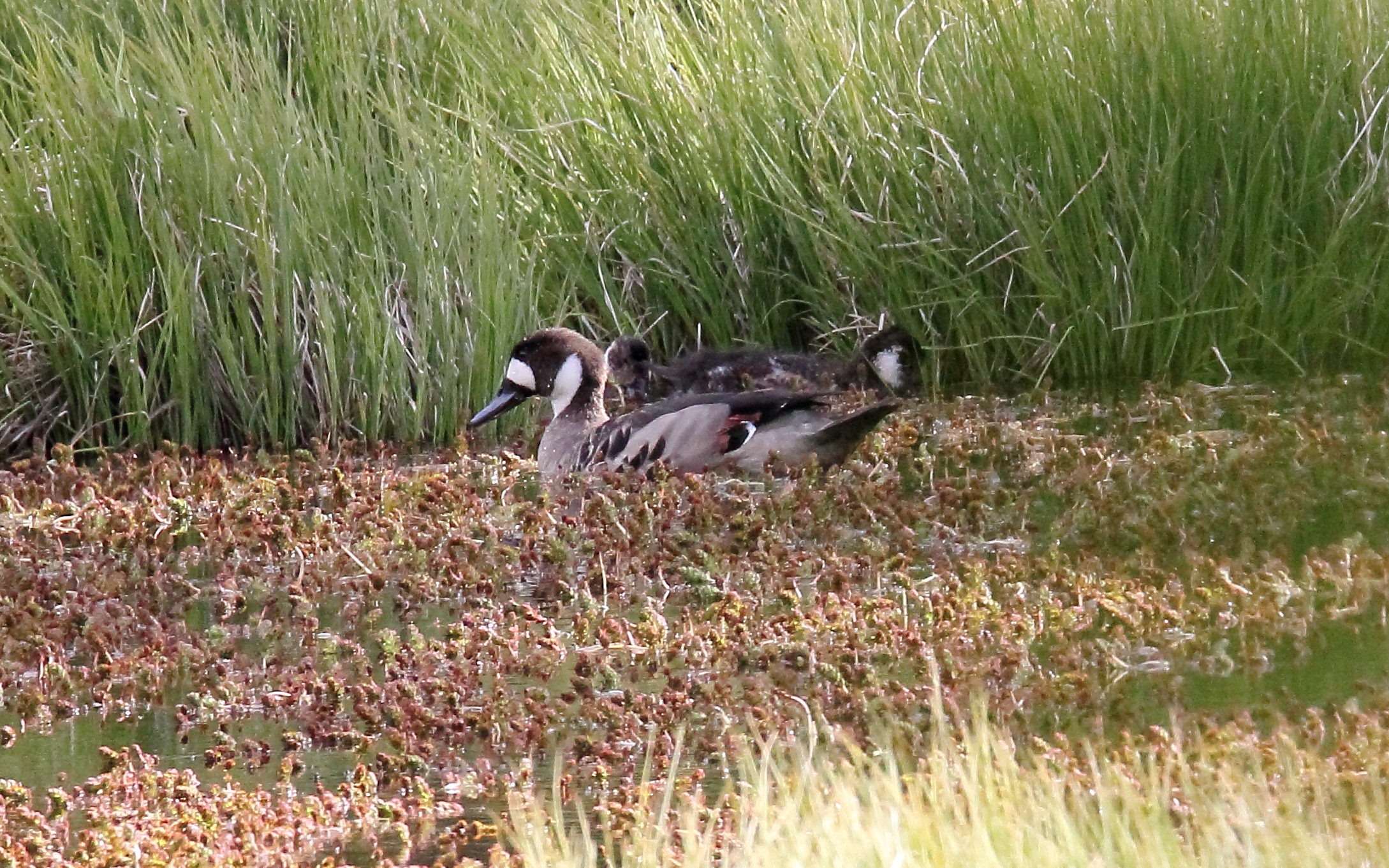 Spectacled Duck Speculanas specularis with chicks, southern Argentina